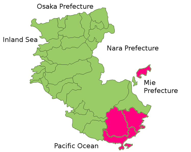 Map of Higashimuro District in Wakayama Prefecture, Japan. Author : Krisgrotius 10:14, 20 October 2006 (UTC) public domain